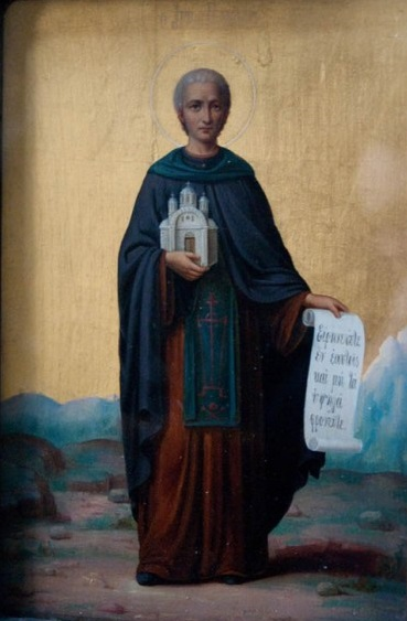 Icon_by_Christodoulos_Matheou_in_Saint_Paul_Monastery